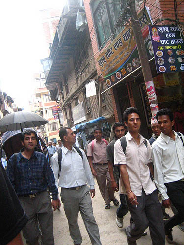 Straight men freely hold hands in the non-heterosexualized parts of the world.